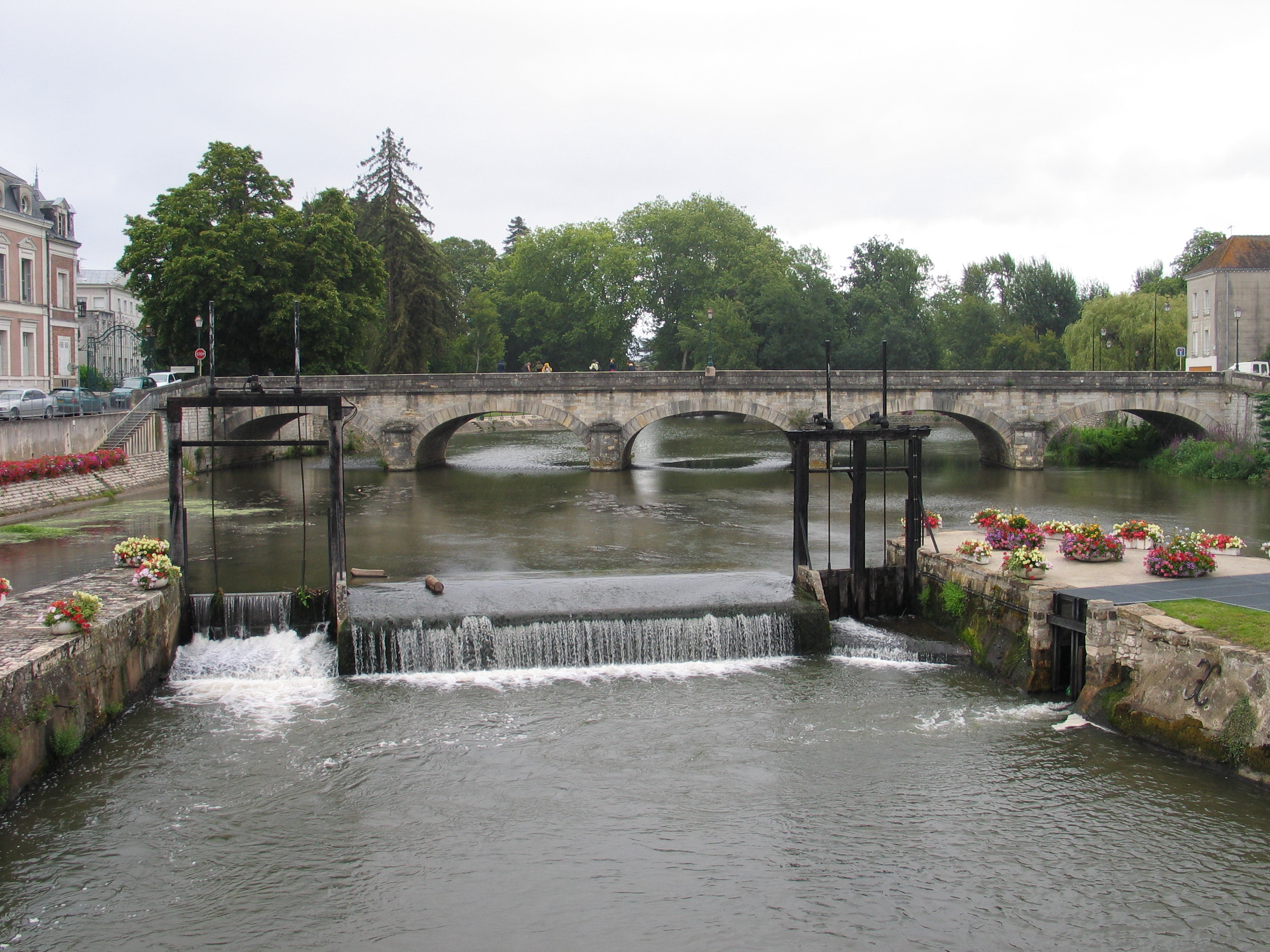 Sauldre. Wiers by museum in Romorantin. This river was teeming with game fish. From the museum which straddles the river, watching the fish was nearly as interesting as the museum. The museum doesn't have much assistance for 'les anglais' but is worth the effort of working through the information. Regional culture, agriculture and hunting/fishing are the themes the museum deals with.